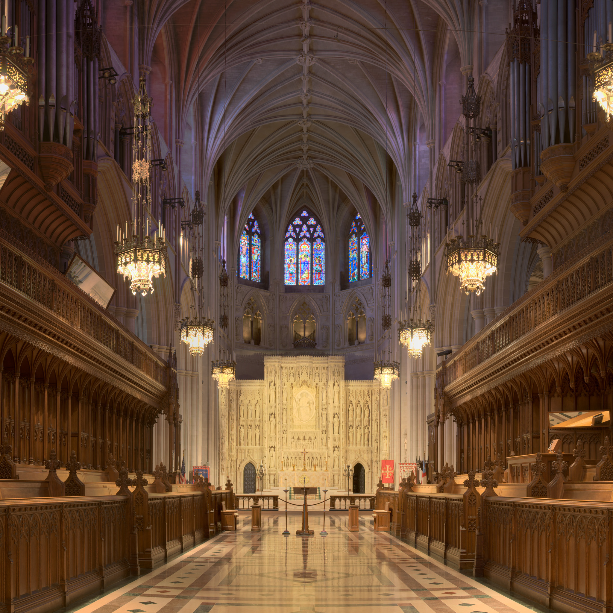 A 3x2 stitched and HDR tone mapped image of the sanctuary at the National Cathedral in Washington, D.C.